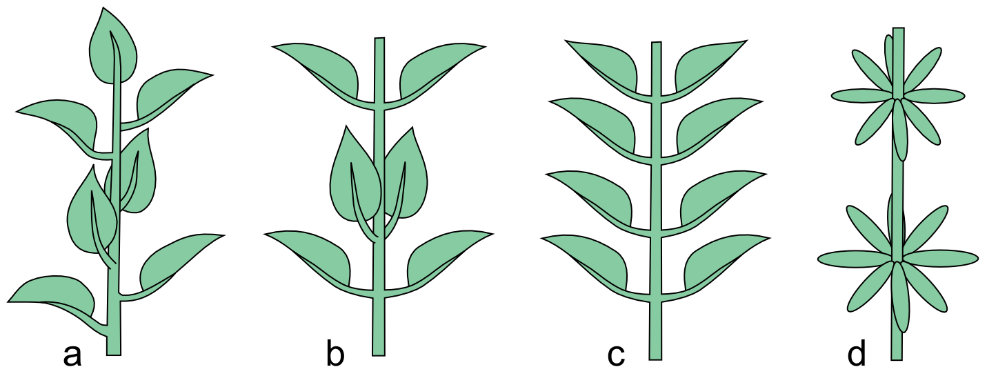 Phyllotaxis. Legend: a. alternate, b. opposite - decussate (rotation 90°) c. opposite - distichous (not rotated), d. whorled .